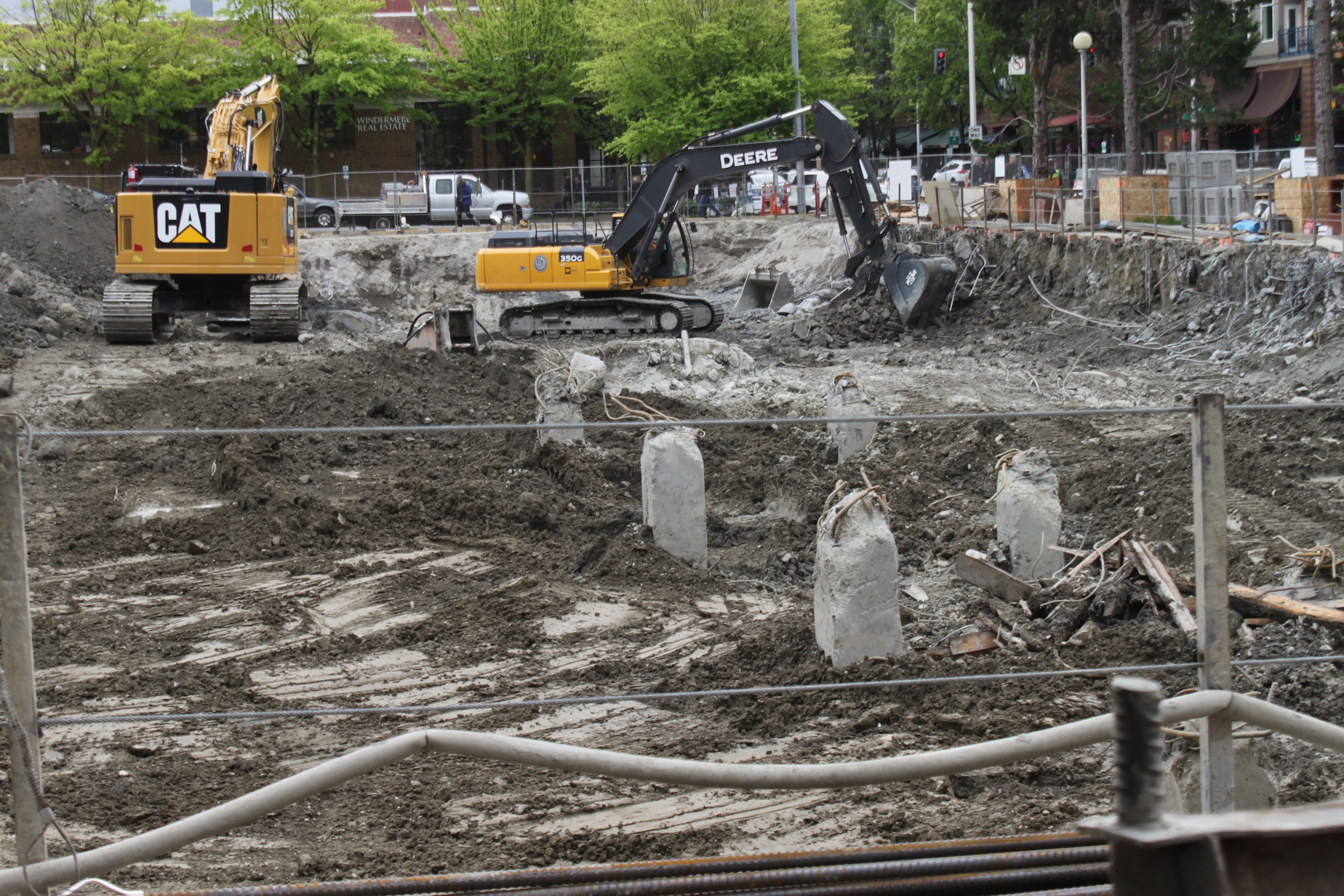 Excavation at 210 Wall Street in the Belltown neighborhood of central Seattle, Washington, US. The site was previous home to the 25-story McGuire Apartments building, which was demolished a decade after construction due to structural defects. The concrete pillars and rebar that once held up the building are now visible in the excavated dirt.